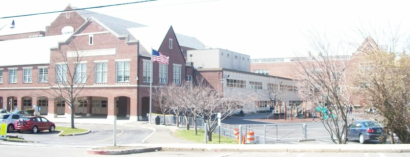 The elementary school entrance of the Bronxville Public School, in 2011. Looking from Midland Avenue.